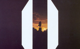 "Before the Sunrise" by Oleg Vasiliev - the Russian Soviet non-conformist artist